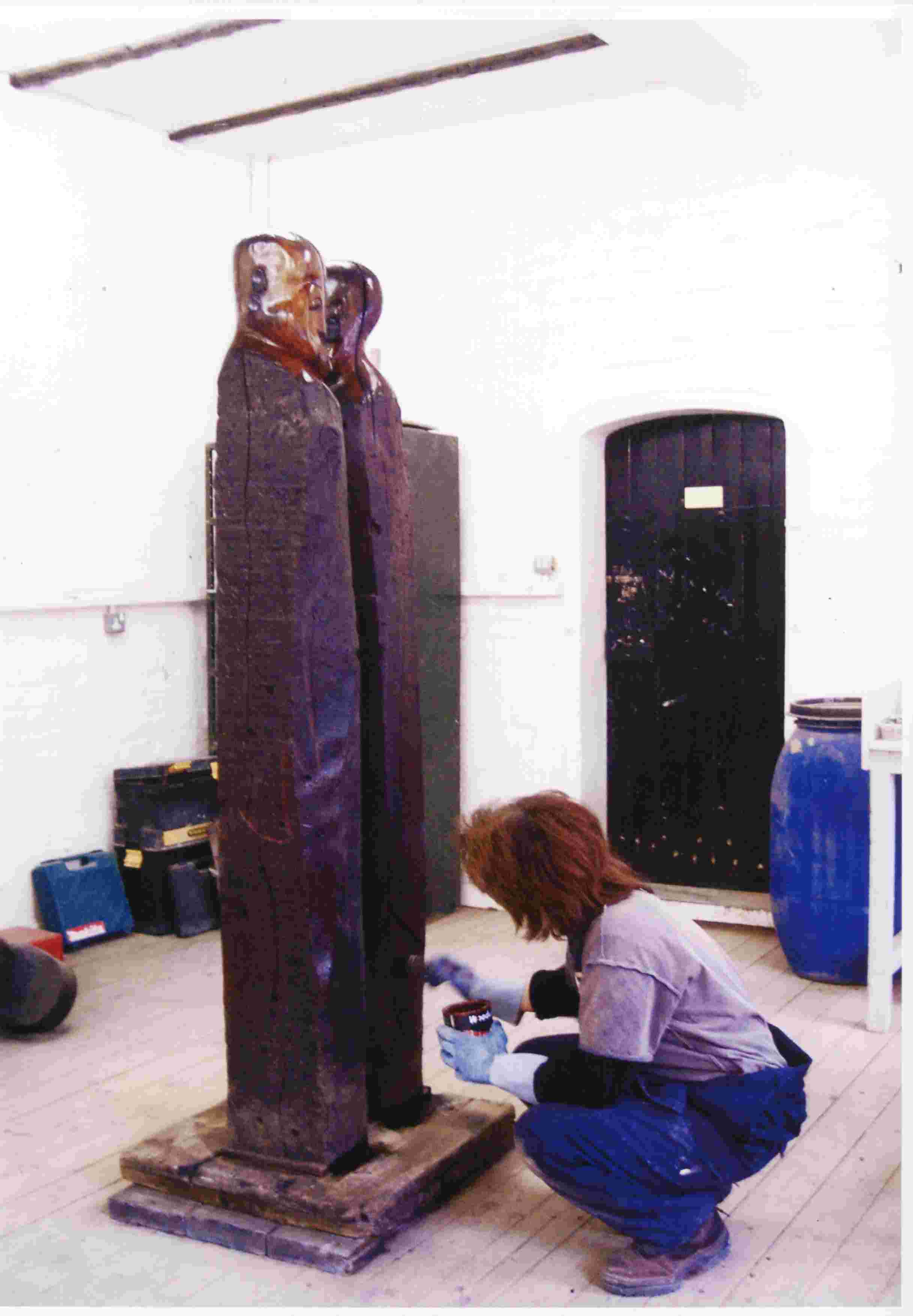 Rita Phillips scultping at The Frink School of Figurative Sculpture c.2002